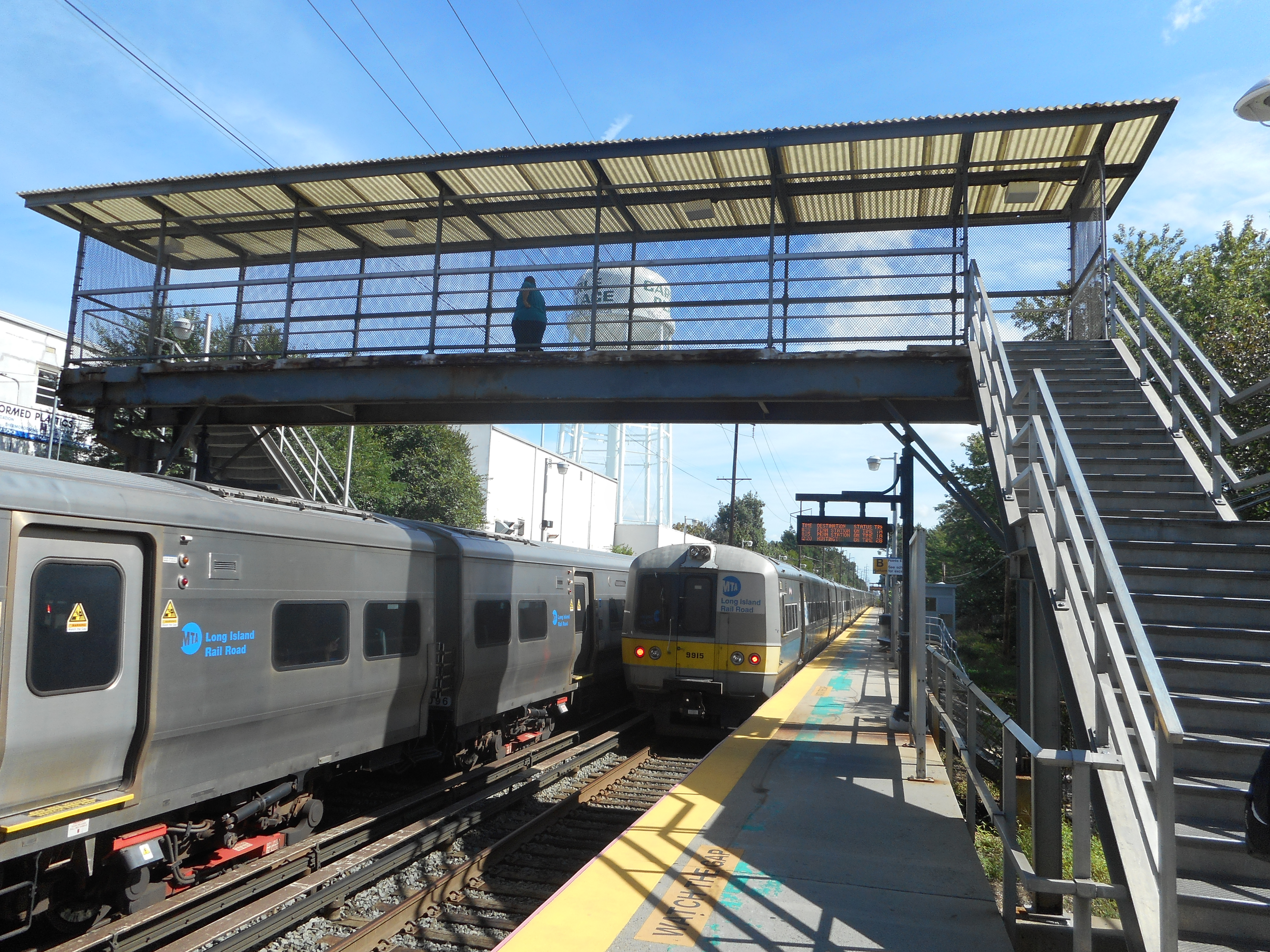 An M3 bound for Huntington leaves Carle Place (LIRR station), while an M7 on the other tracks loads up passengers, bound for either Jamaica, Atlantic Terminal, Long Island City, or Penn Station.